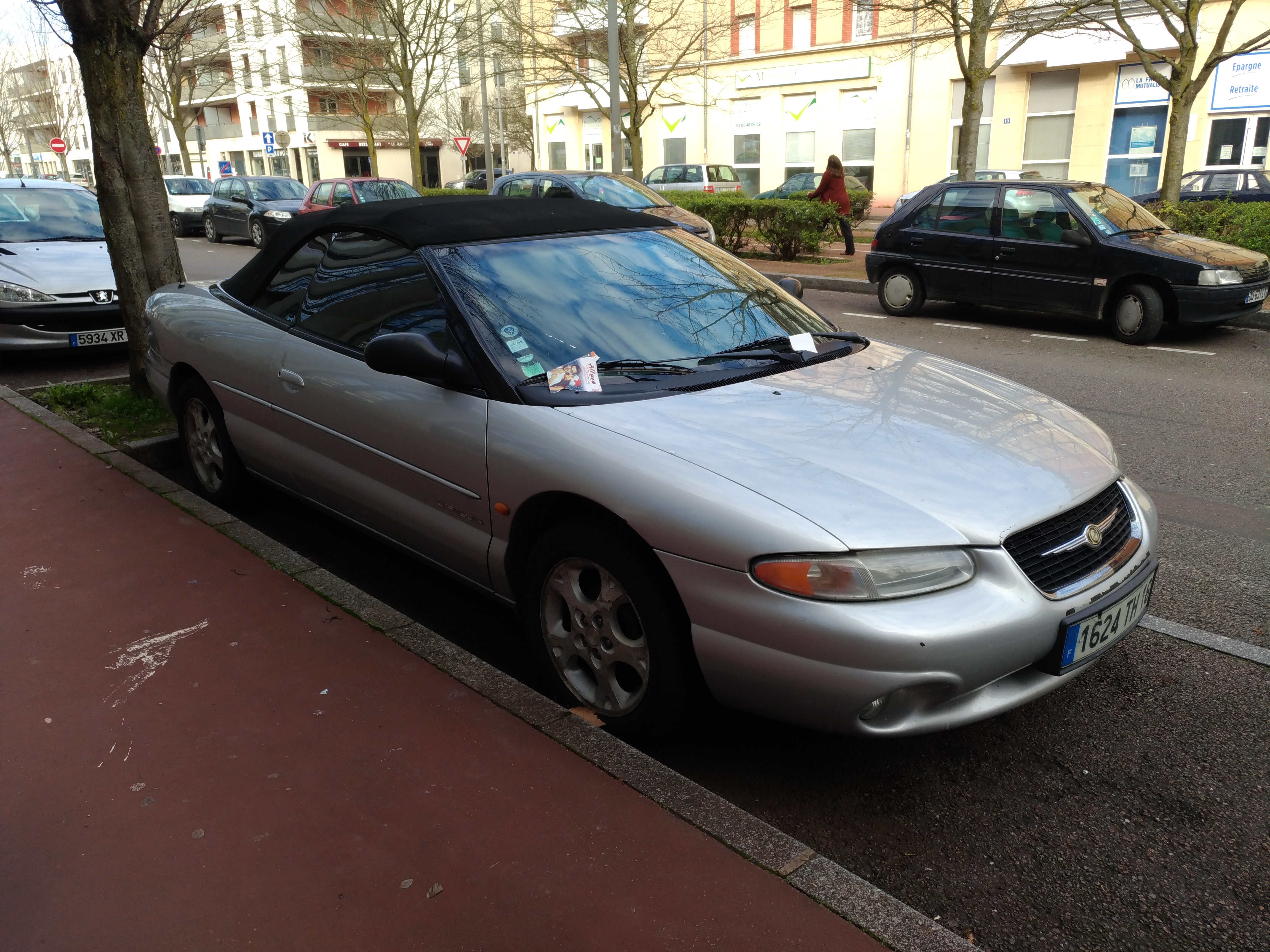 Chrysler Stratus (2.0 131 hp) at Chalon sur Saone